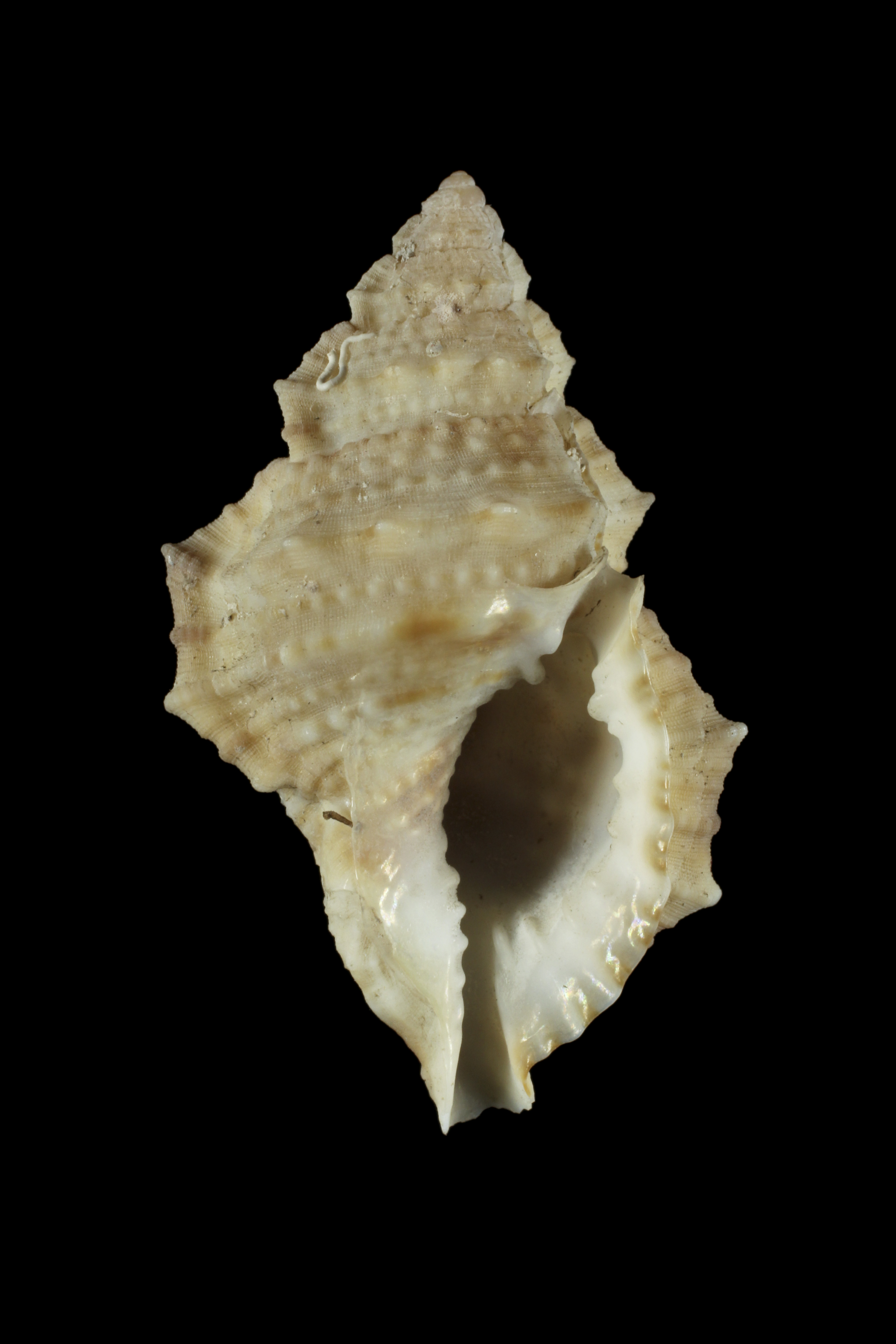 PRESERVED_SPECIMEN; Bursa fijiensis (Watson, 1881); Type status: N/A; Identified by: Castelin M.; Individual count: 1; Event date: 2005-10-19T00:00:00Z